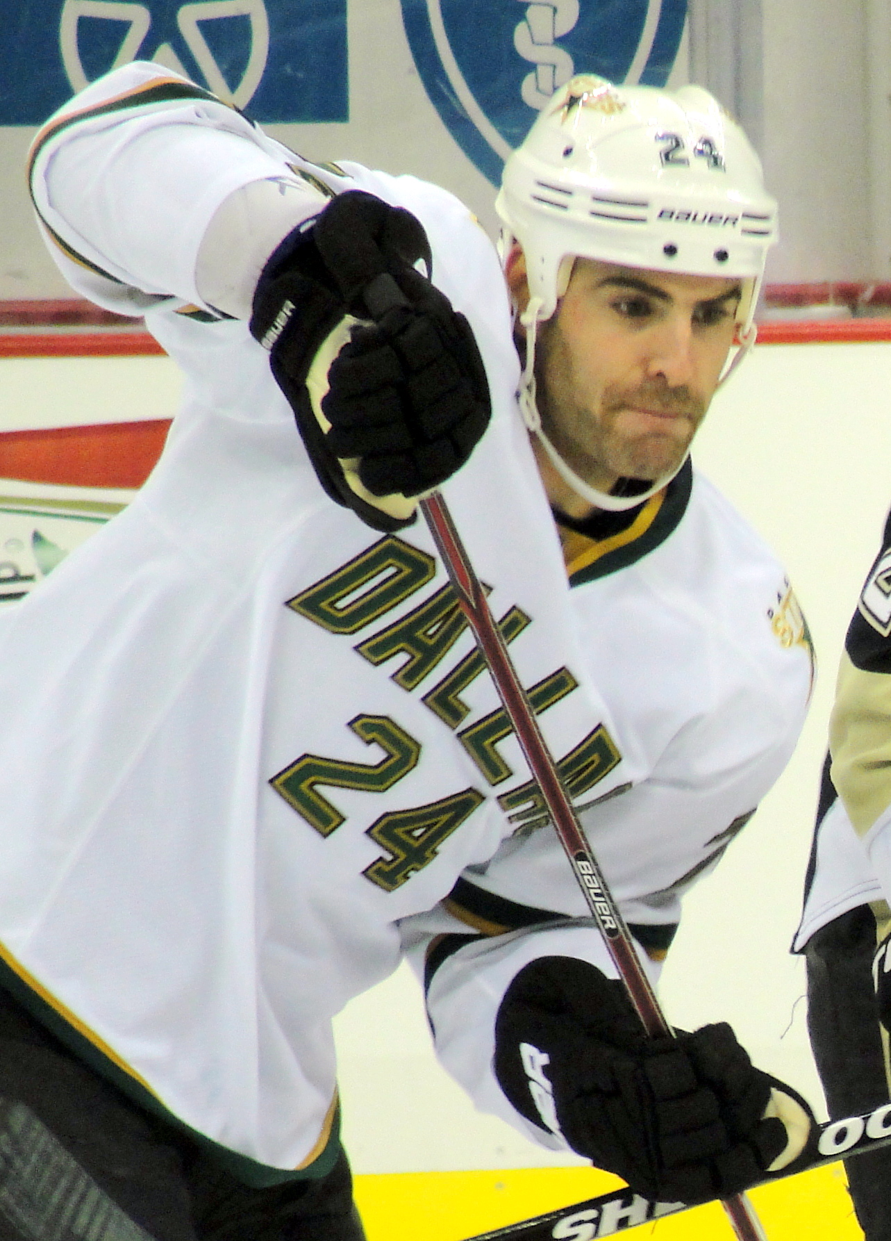 Eric Nystrom of the Dallas Stars during a November 11, 2011 game against the Pittsburgh Penguins at Consol Energy Center in Pittsburgh, PA.